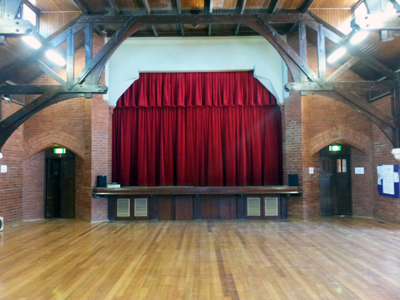 St Andrew's Parish Hall, Brighton